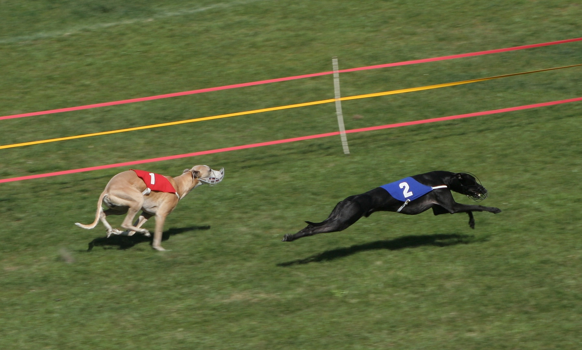 Whippets during the dog's racing in Bytom - Szombierki, Poland.